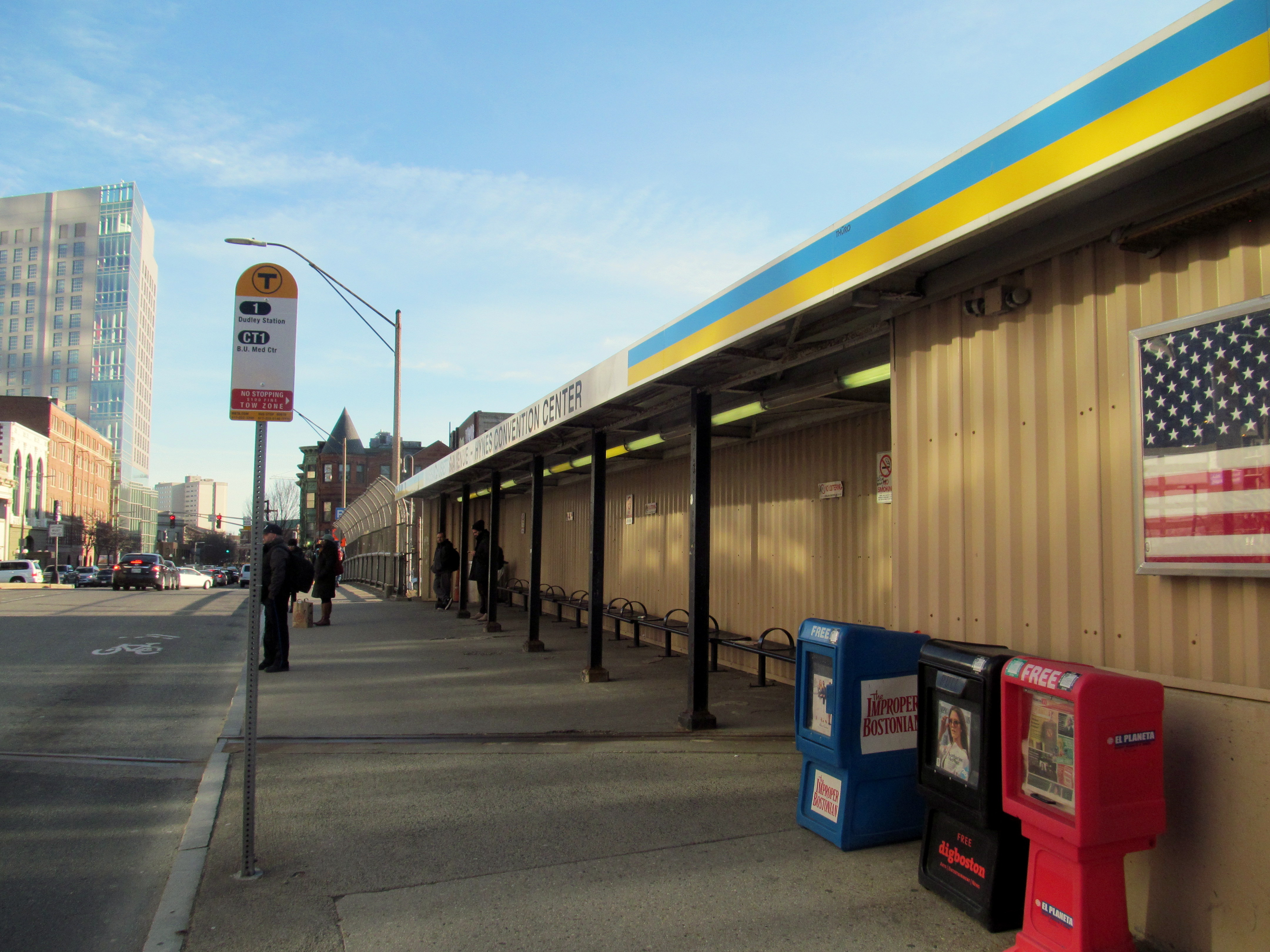 Southbound bus shelter at Hynes Convention Center station in March 2016